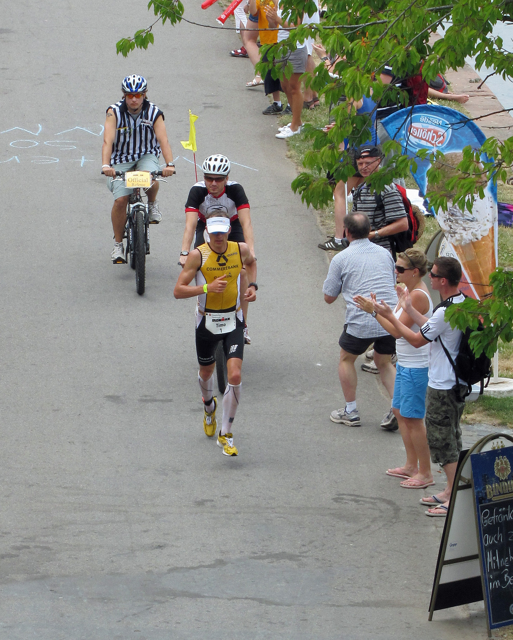 Timo Bracht, 2010, Ironman Germany in Frankfurt am Main.